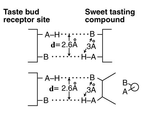 A caricature of the dual coordinate bond arrangement used in the gustaphore and odorophore selection process as part of the transduction process in mammals and some other vertebrates.